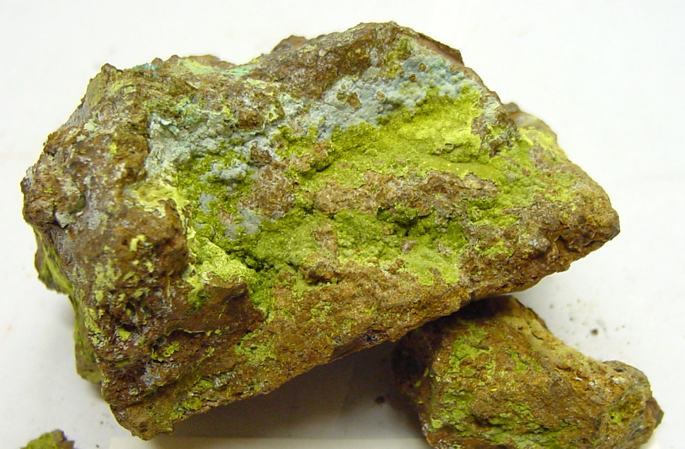 Chalcophyllite. Collected from Lemhi County, Idaho. Mineral collection of Bringham Young University Department of Geology, Provo, Utah. Photograph by Andrew Silver. BYU index 9-7019, Cu_18Al_2(AsO_4)_3(SO_4)_3(OH)27 x 36H_2O. URL